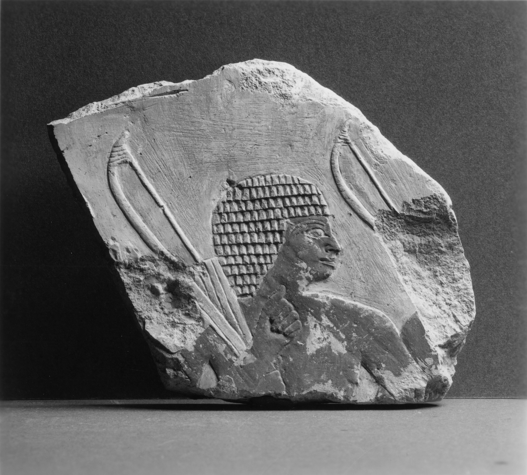 Walters 22.98 is a painted limestone fragment of wall relief from the Temple of Hatshepsut at Deir el Bahri. Three archers are at least partially visible. Of the rear figure, only his left arm, with his hand clenched in a fist is visible crossing over the chest of the central figure. All that is visible of the rear figure is part of his right shoulder and the upper section of his bow. The figures form a line with the left arm of each man overlapping the right arm and chest of the man in front of him. The central figure stands with his face turned in profile toward the right and it may be assumed that the others are posed in a similar manner. His bow and quiver of arrows are held in his right hand and fall onto his right shoulder. He wears a short cap-like wig with rectangular plaits. His naturally shaped eye is wide open and overly large and his tear duct appears to be cutting into his nose. His lips are sharply outlined and his nose is defined by a deep crease. The flesh of the men is painted a dark reddish tone, however, a modern cleaning of this piece removed a significant portion of the pigment from the chest of the central figure.